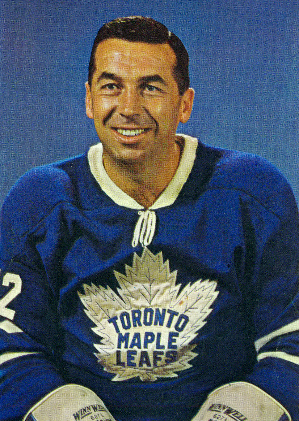 Trading card photo of Ron Stewart as a member of the Toronto Maple Leafs. According to the seller, Ralston-Purina also printed trading cards on their pet food bags during the same 1963 to 1965 time period they were printing hockey trading cards on the backs of their Chex cereal boxes in the US and Canada. While the cereal box ones were on sturdier cardboard, the paper ones from the pet food bags had no such backing. Both styles of card were blank on the back, as the collector simply cut them from the box or bag. auction "According to the VHC catalogue , these paper issued photos (as opposed to regular cardboard issue) were put out by the Ralston Purina company on bags of pet food and these were produced in very low numbers and are very tough to find in any condition." These cards were also printed on the backs of Chex cereal boxes in the US and Canada from 1963 to 1965. Those collecting the cards cut them from the back of the boxes. Stewart's cereal box card front.